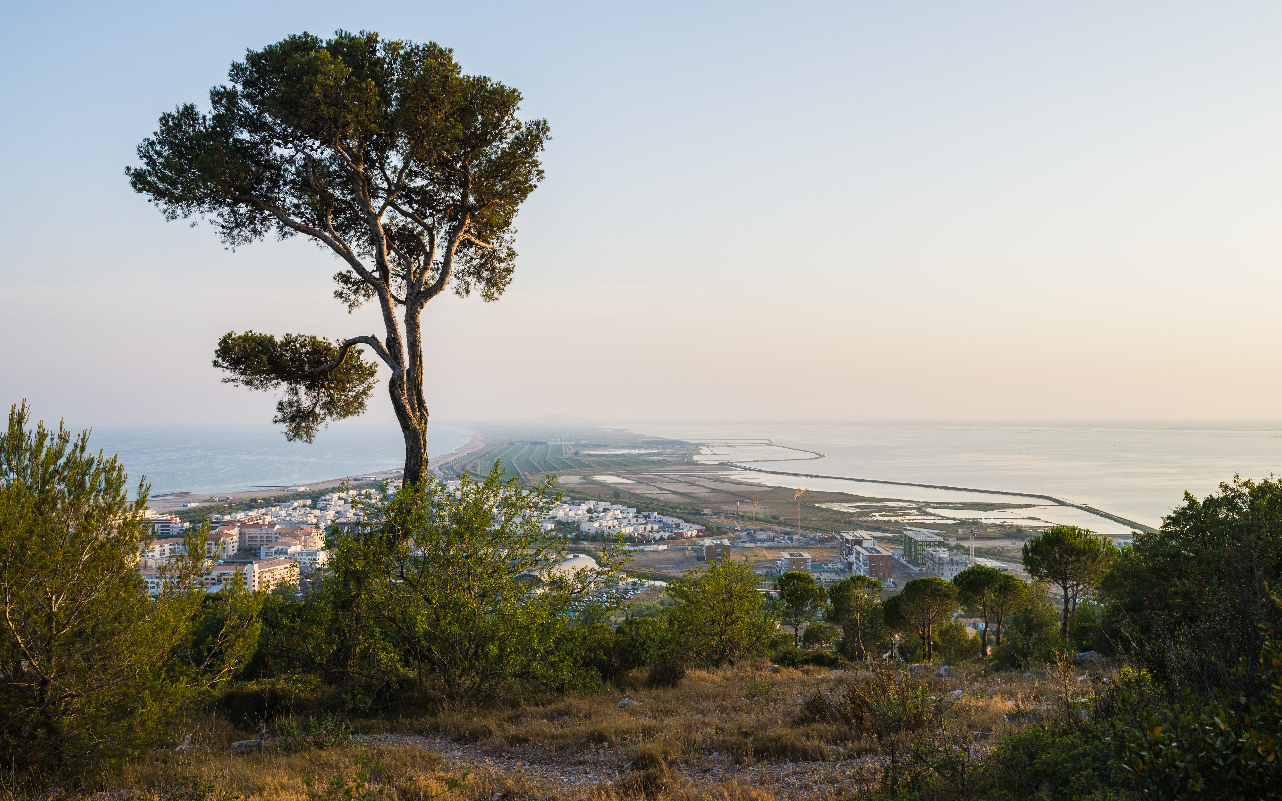 An Aleppo Pine (Pinus halepensis) in the forest of Sète on the Mount Saint-Clair. In the background, the beach and the sandspit between the Mediterranean Sea, on the left, and the Étang de Thau, on the right, whitch connect Sète and Marseillan. Sète, Hérault, France.